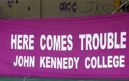 Standard Banner